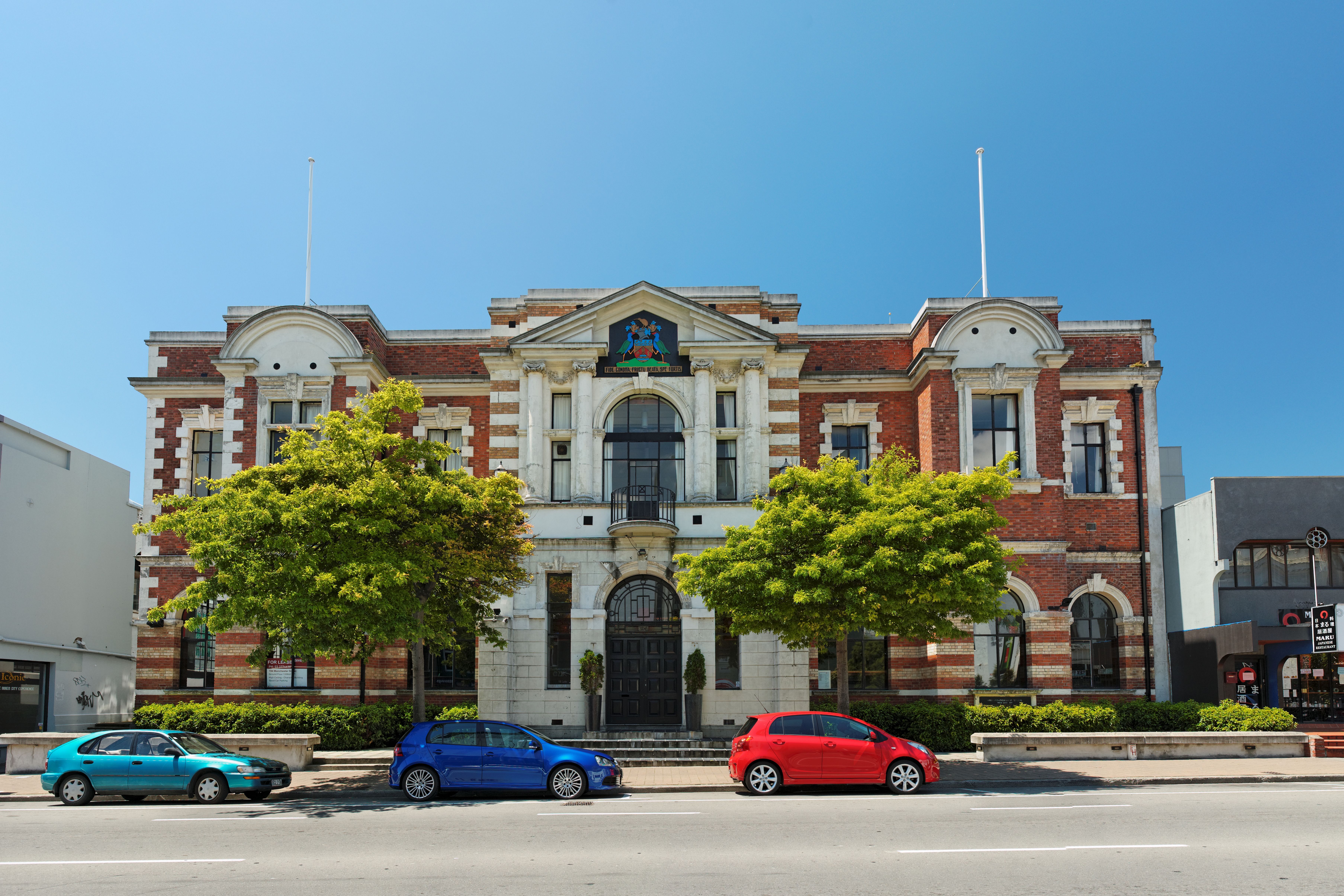 The New Zealand Historic Places Trust wants photos of registered historic places, so I started to take photos of the old buildings around town. This is the number 1870, the City Council Civic Offices (Former), 194-198 Manchester Street. The photo is a stitched panorama taken hand-held with my Sigma 30mm lens, and polarising filter. I used Hugin to stitch the images together. It required some fiddling because of the parallax errors introduced by hand-held shooting. I shot RAW and used DxO Optics to bring detail out in the shadows. (A stunning photo! Schwede66)